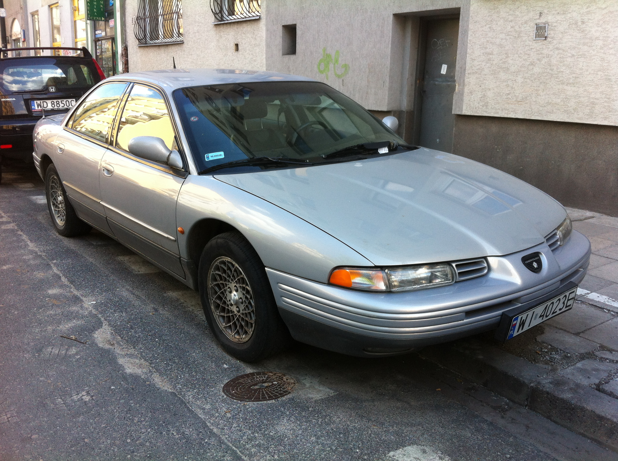 Chrysler Vision (export version of the Eagle Vision) silver sedan, front right view. Photographed on Solec Street (near Tamka) in Warsaw, Poland